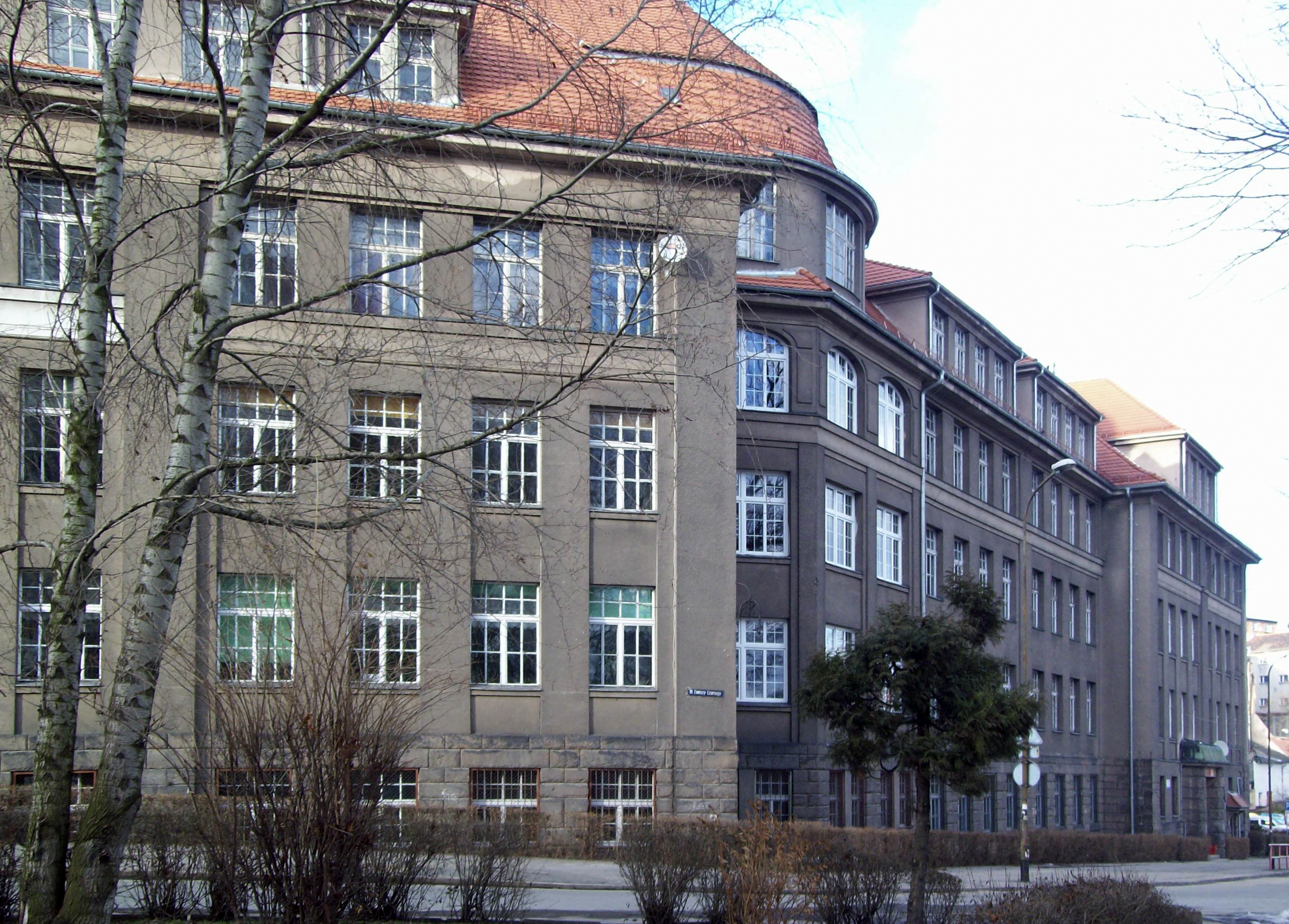 Gimnazjum nr 1 in Kłodzko, view towards the Sybiraków Park